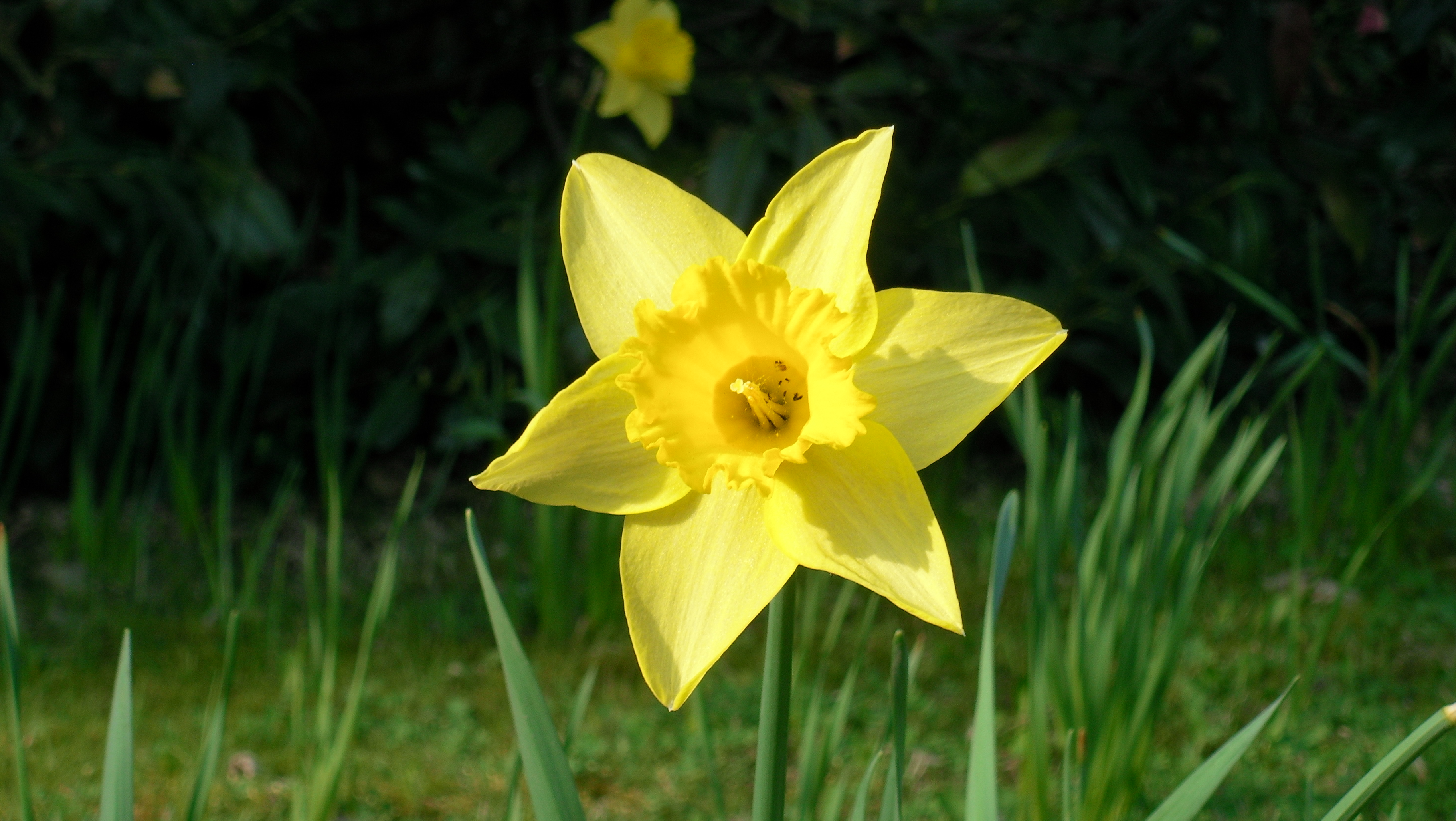 Narzisse (Narcissus asturiensis)